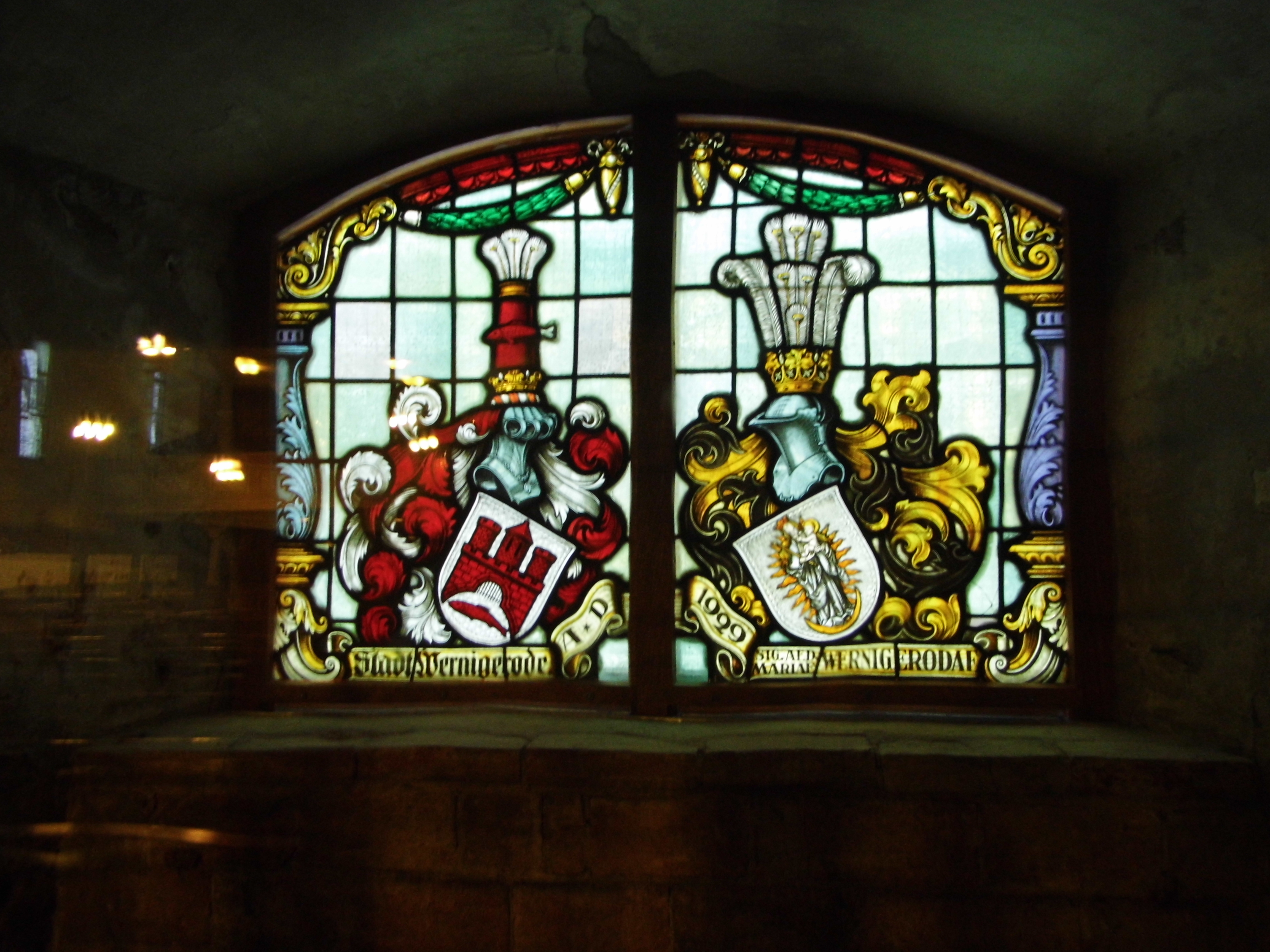 Das in den 1920er jahren von der Stadt Wernigerode gestiftete Flachbogenfenster im Osten